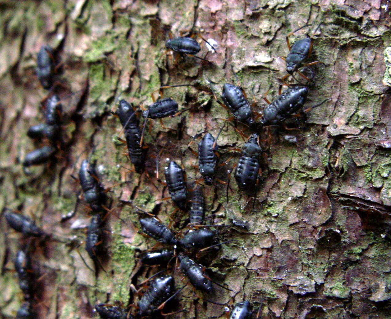 Colony of Cinara piceae on Picea abies